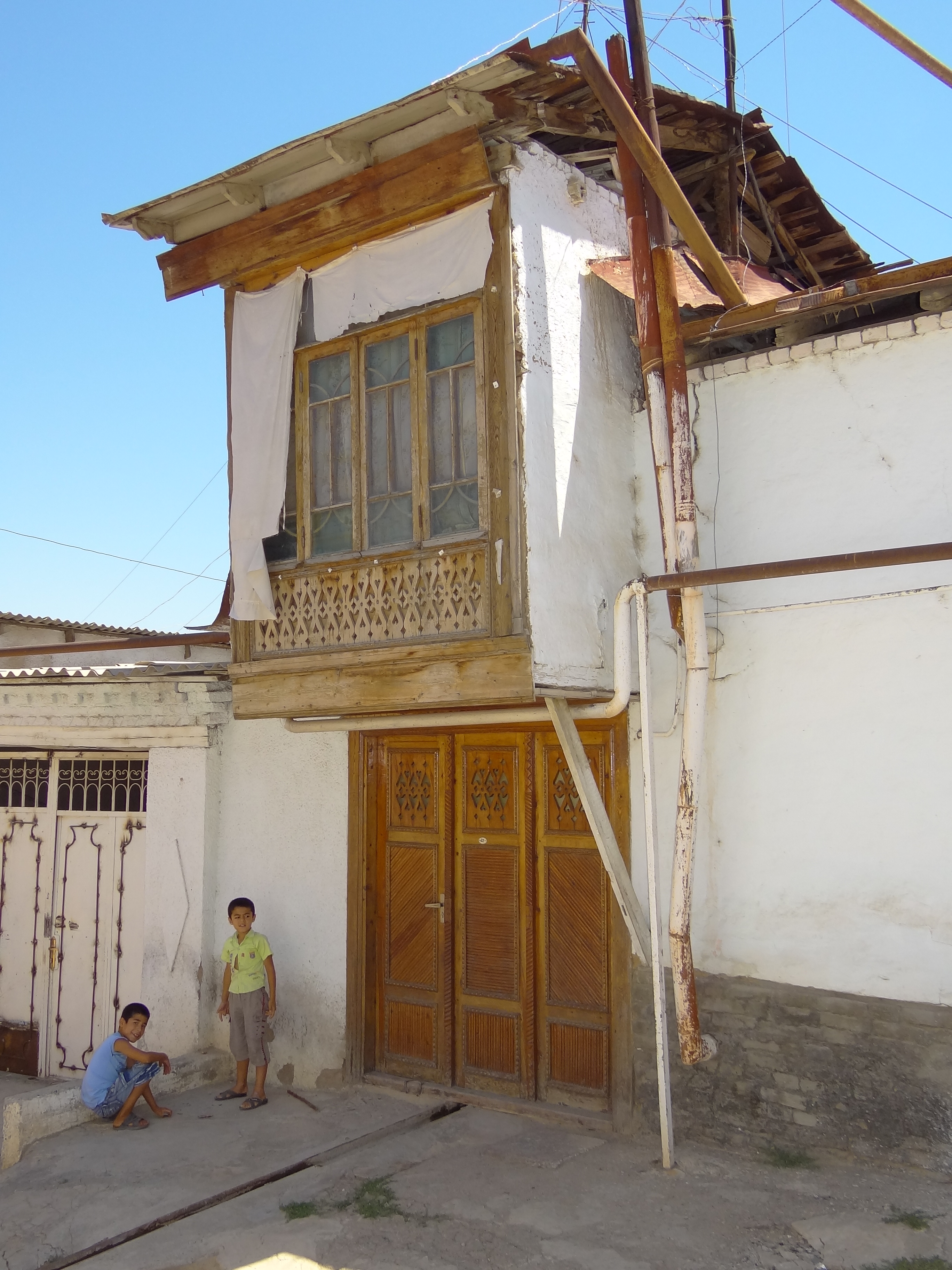 Old City (Jewish Quarter) Street Scene - Samarkand - Uzbekistan - 01